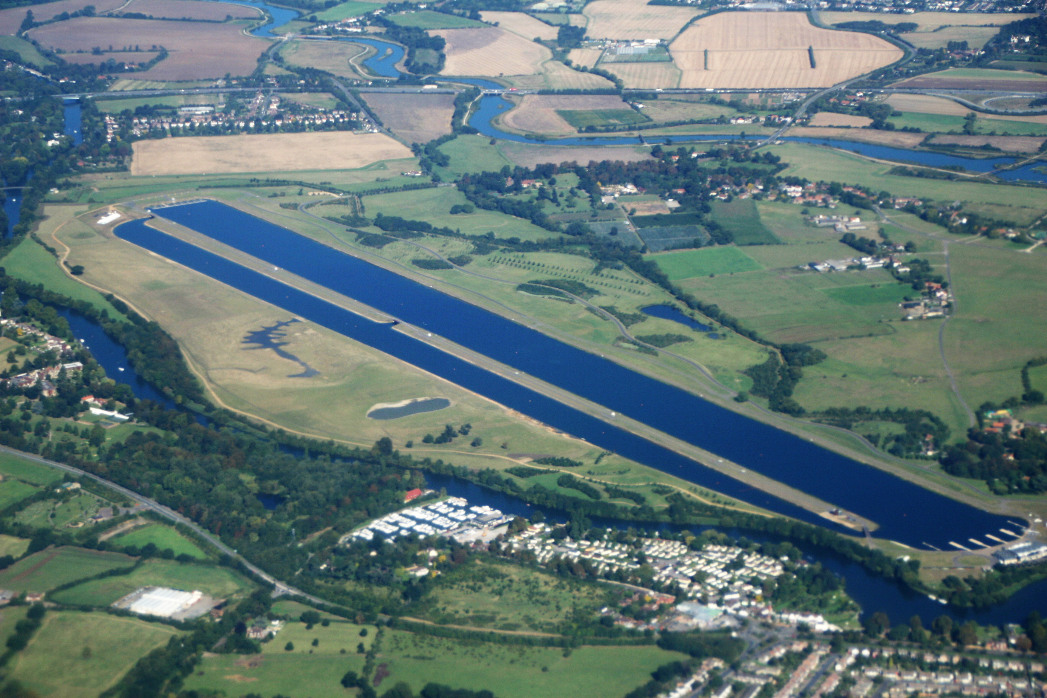 Aerial view of the olympic rowing track, England